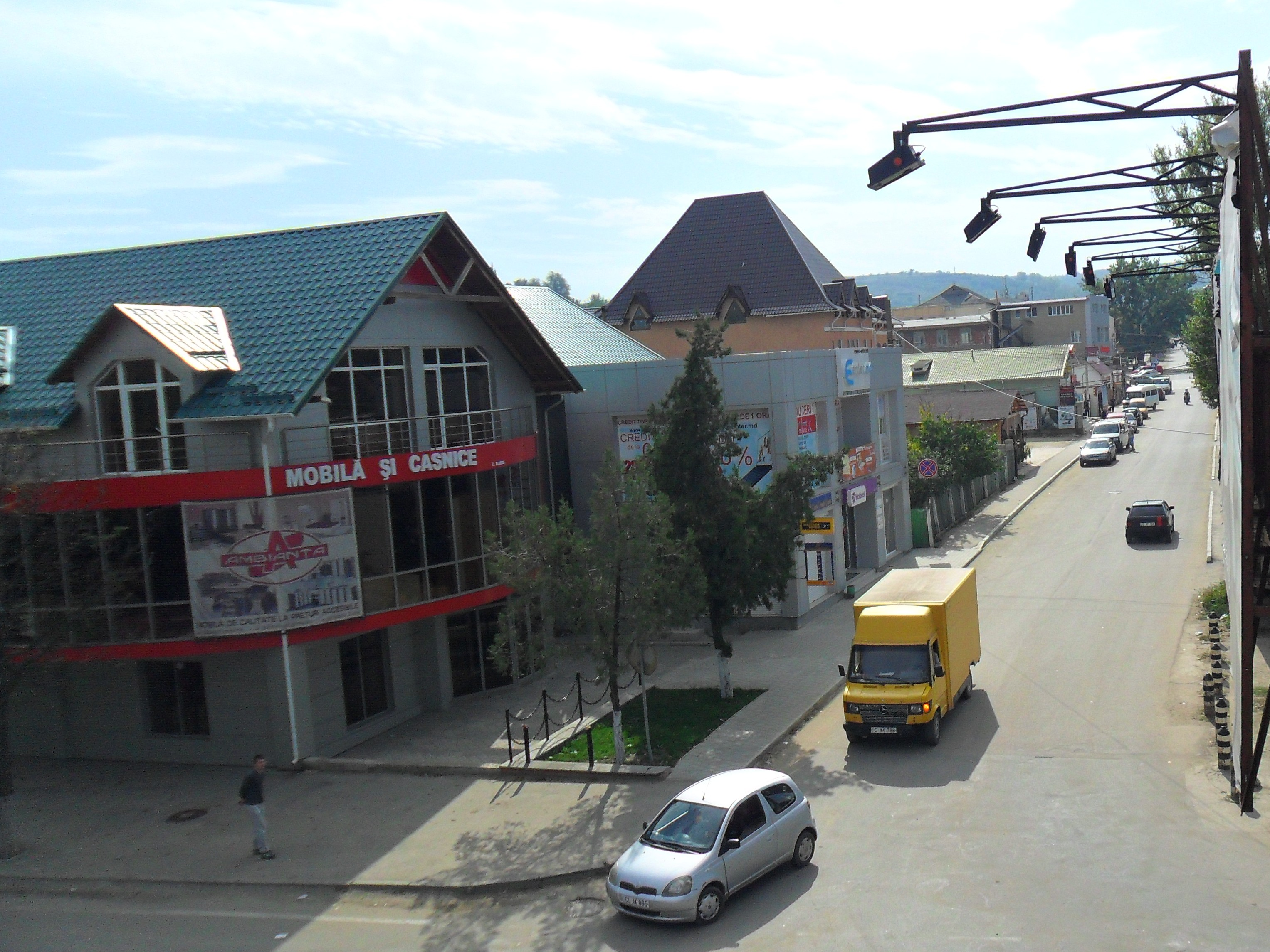 Eminescu street of Strășeni, intersection with national road Chișinău-Ungheni